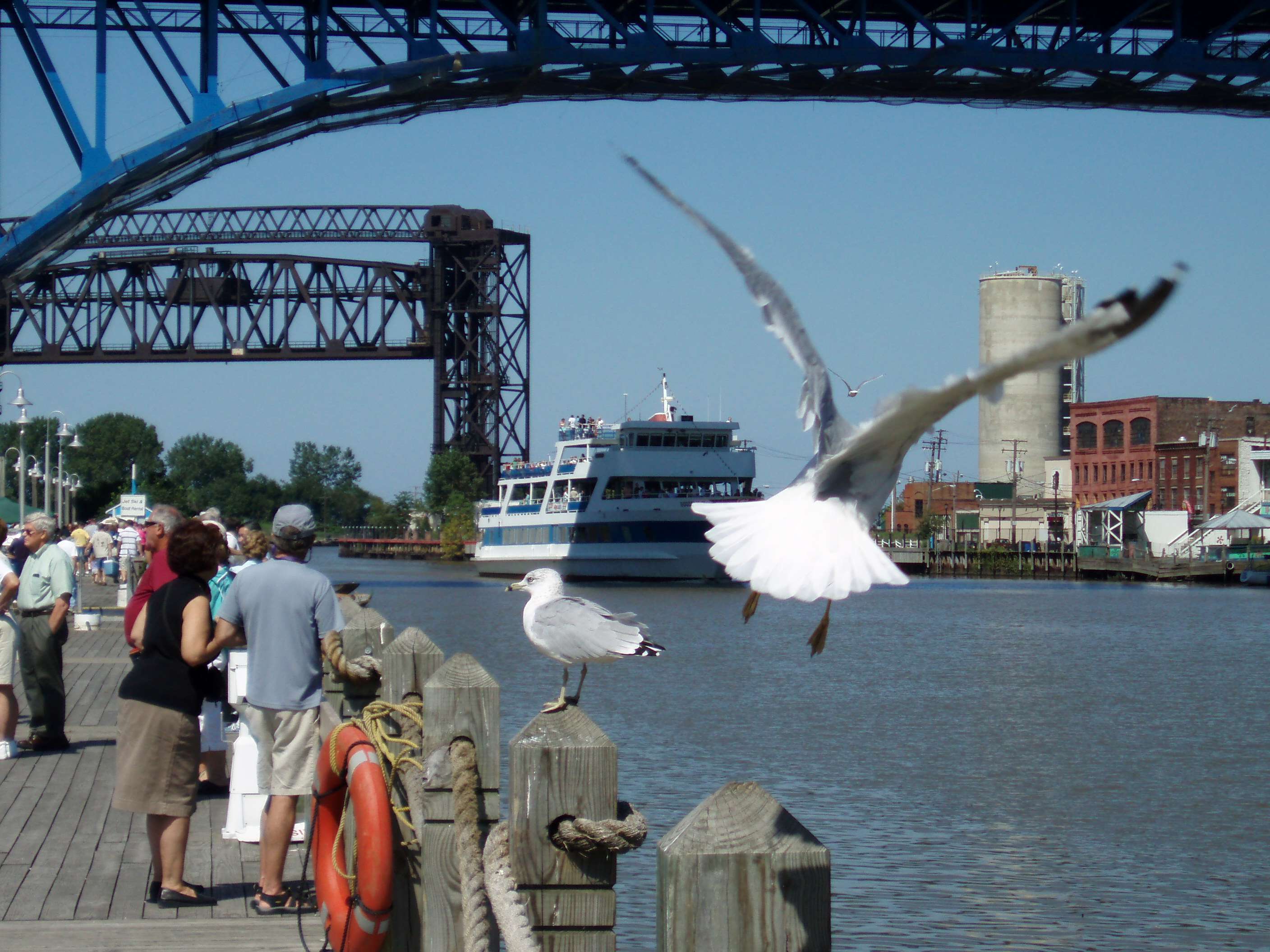 The Goodtime III coming up the Cuyahoga River in Cleveland, Ohio